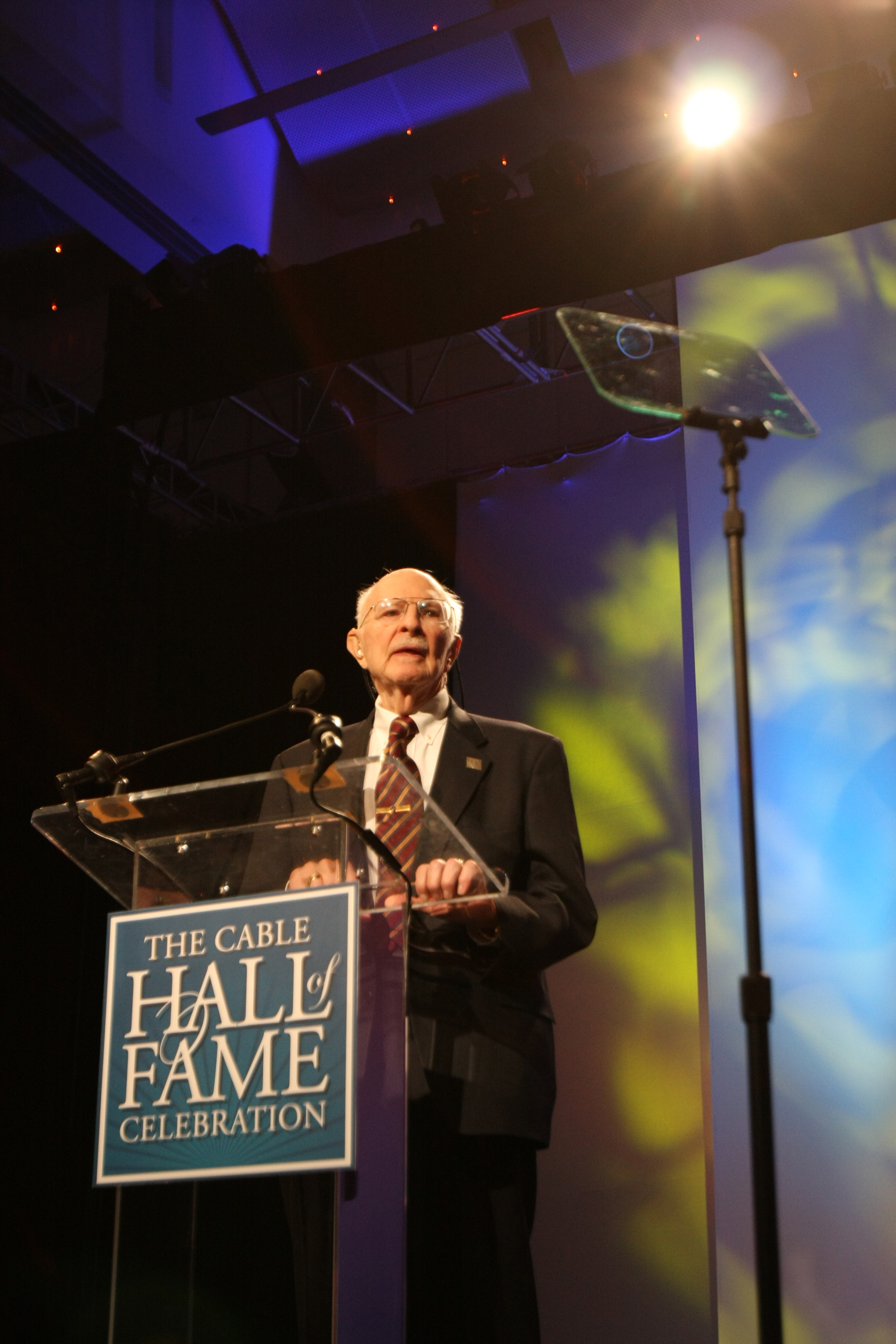 Hubert Schlafly using teleprompter, Cable Hall of Fame induction, Denver, 2008